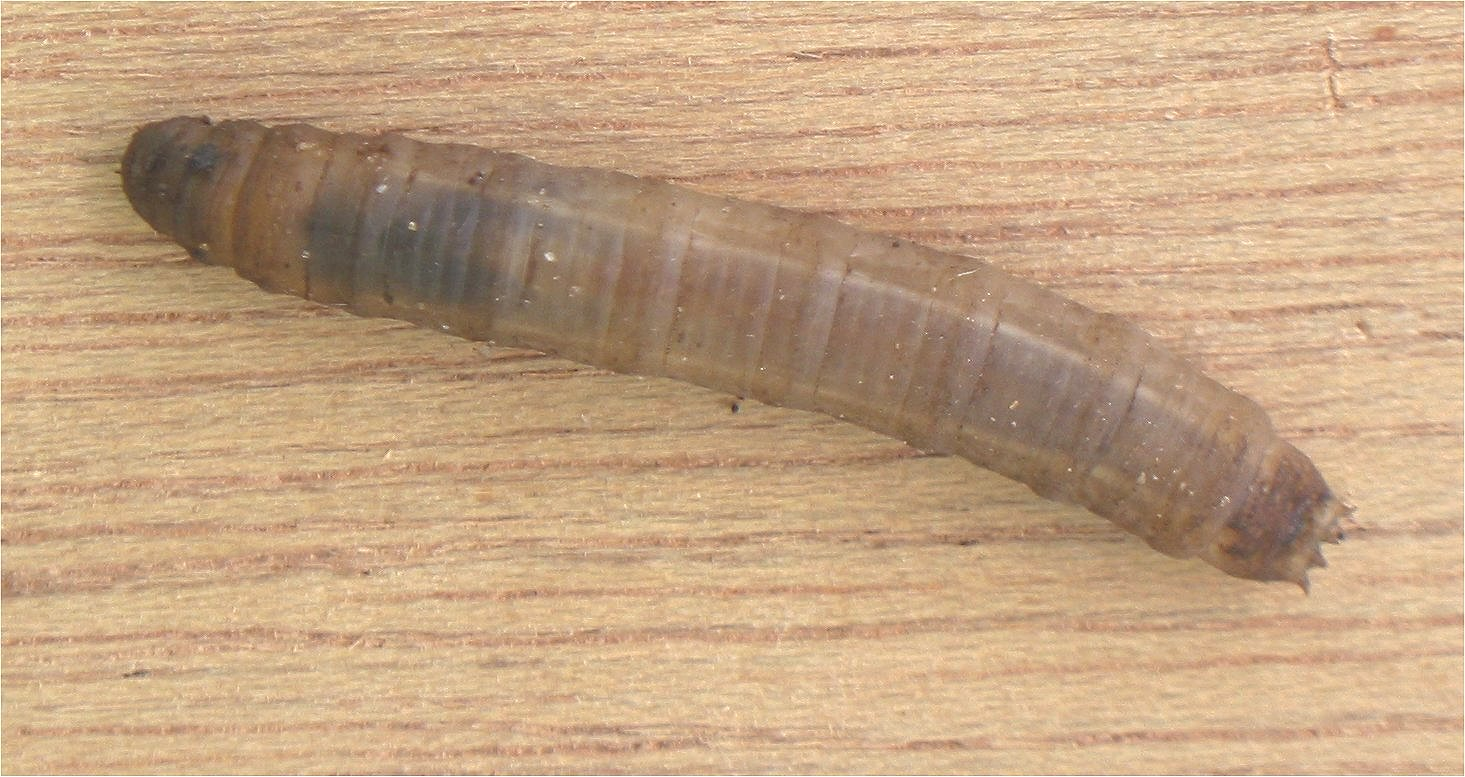 Tipula leatherjacket (Emelt)